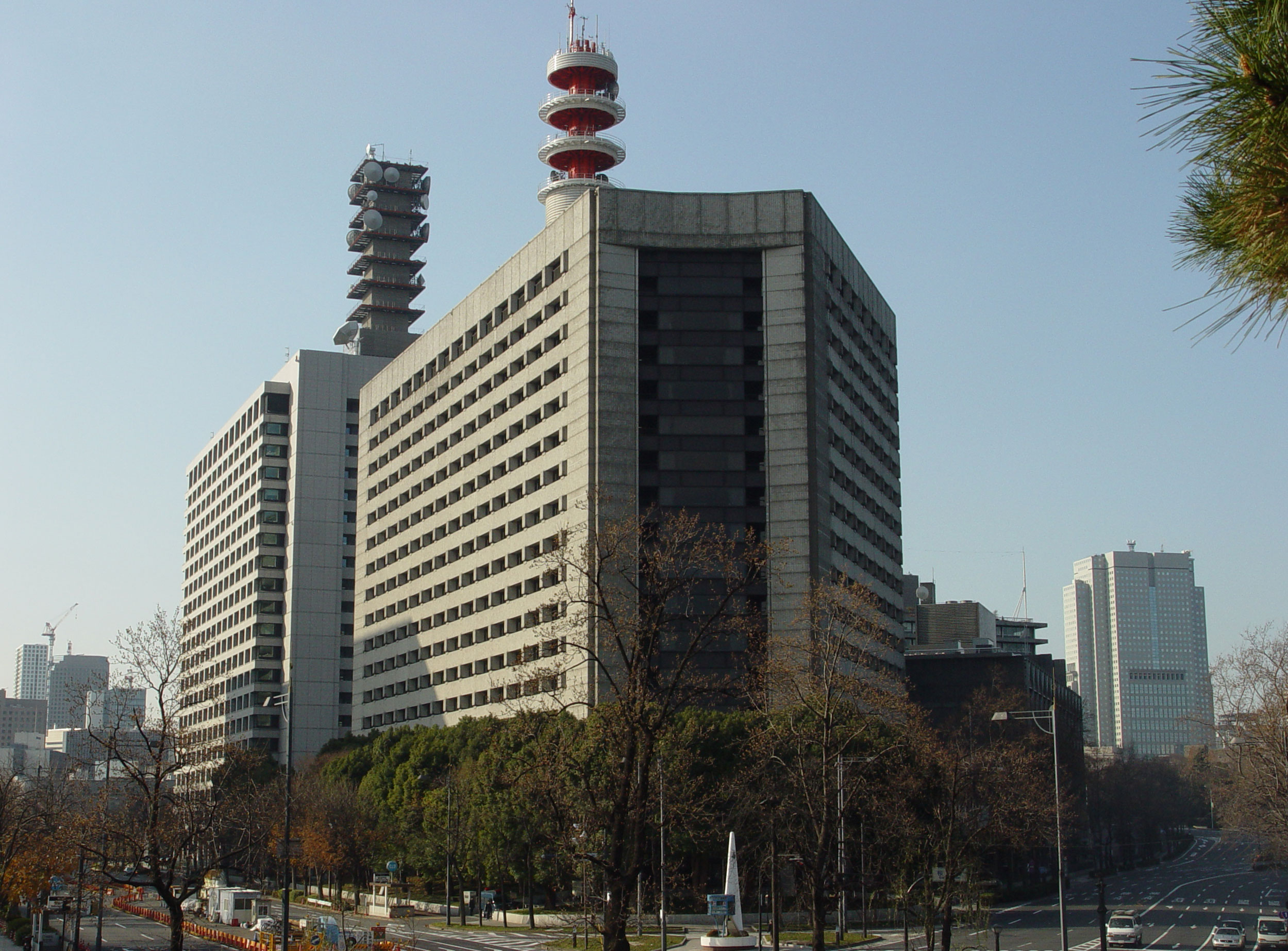 Public office building of the The Tokyo Metropolitan Police Department, Japan Position with Google Earth still missing [Position]